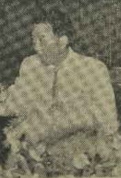 Pak Kum-chol (1912 - 1968)